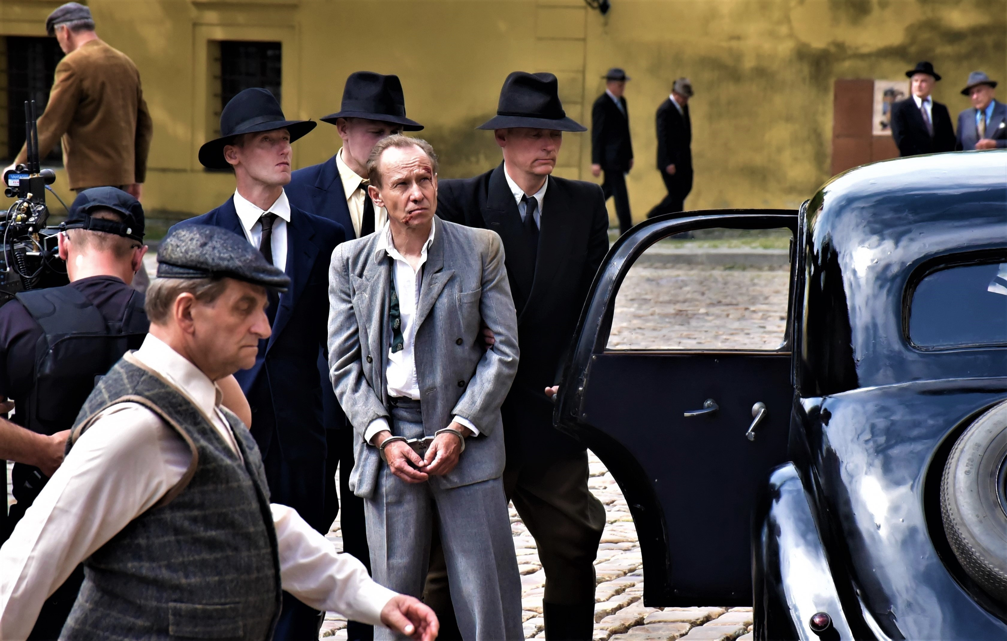 Ondřej Malý, Czech actor (in the middle with handcuffs)